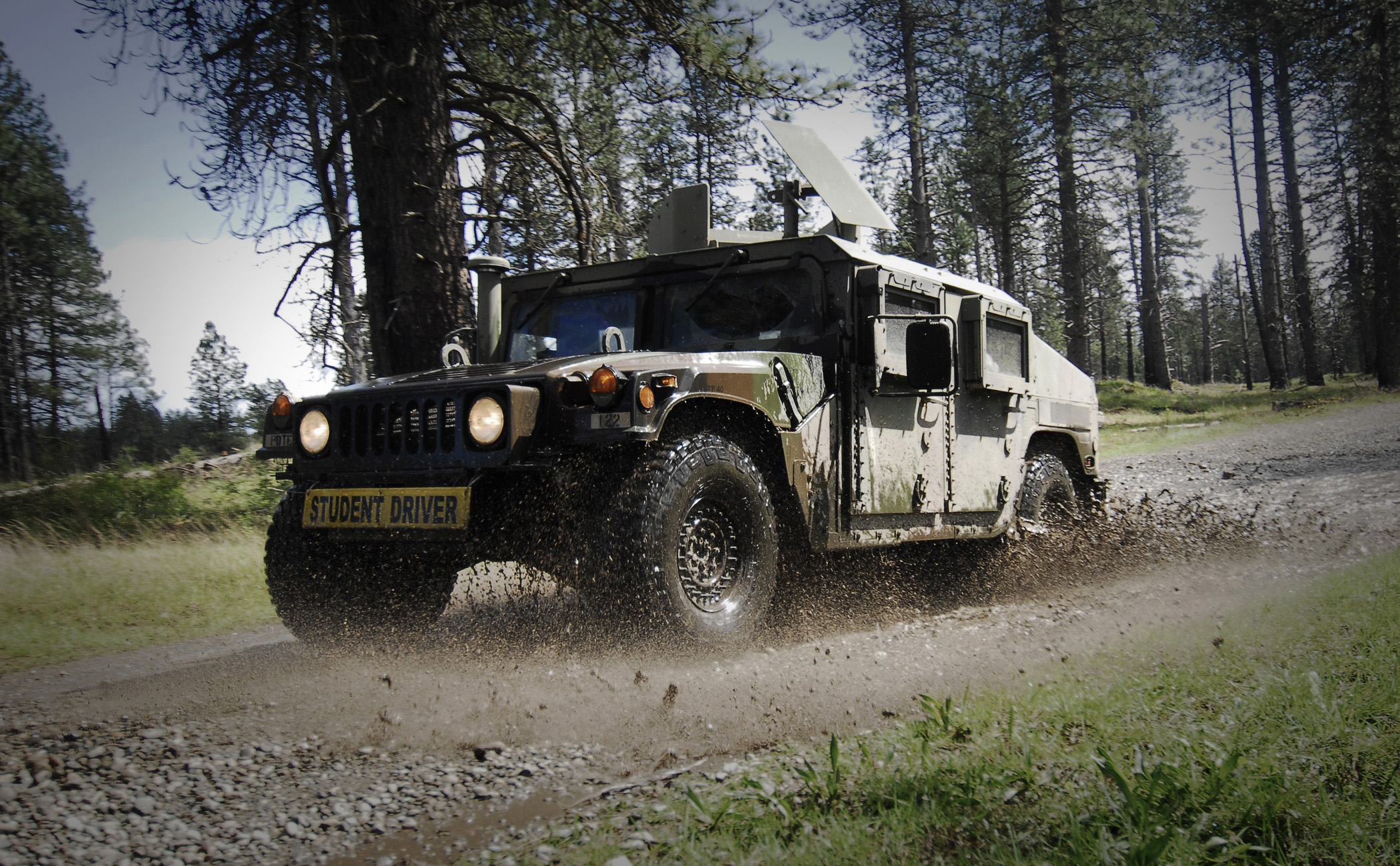 FORT LEWIS, Wash. (April 28, 2010) Sailors drive a high mobility multipurpose vehicle (HMMV) during an HMMV training course at Fort Lewis, Wash. The training is part of a month-long pre-deployment course designed to assist Sailors deploying to Iraq and Afghanistan. (U.S. Navy photo by Mass Communication Specialist 2nd Class Walter M. Wayman/Released)